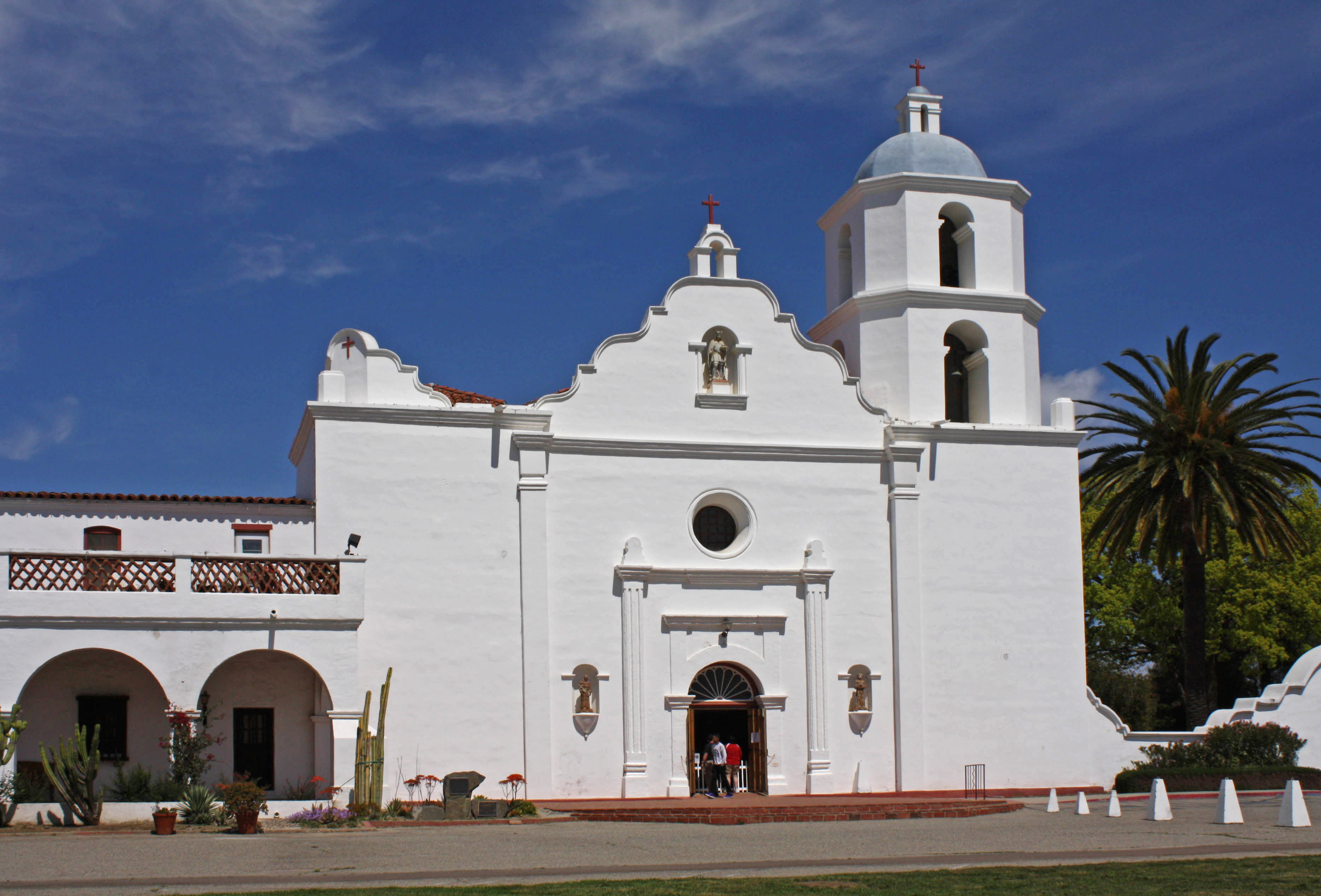 Church of the Mission San Luis Rey de Francia, Oceanside, California